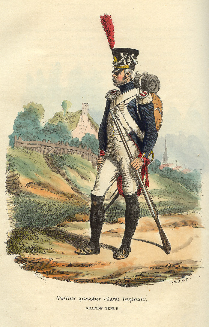 Fusilier grenadier in parade uniform from the Imperial Guard of the Grande Armée. From book of P.-M. Laurent de L`Ardeche «Histoire de Napoleon», 1843